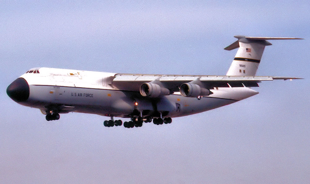 75th Military Airlift Squadron Lockheed C-5A Galaxy 69-0020, about 1975. (c/n 500-0051) transferred 1994 to 445th Airlift Wing Wright Patterson AFB. Retired to Museum of Aviation, Robins AFB, Georgia, 2008